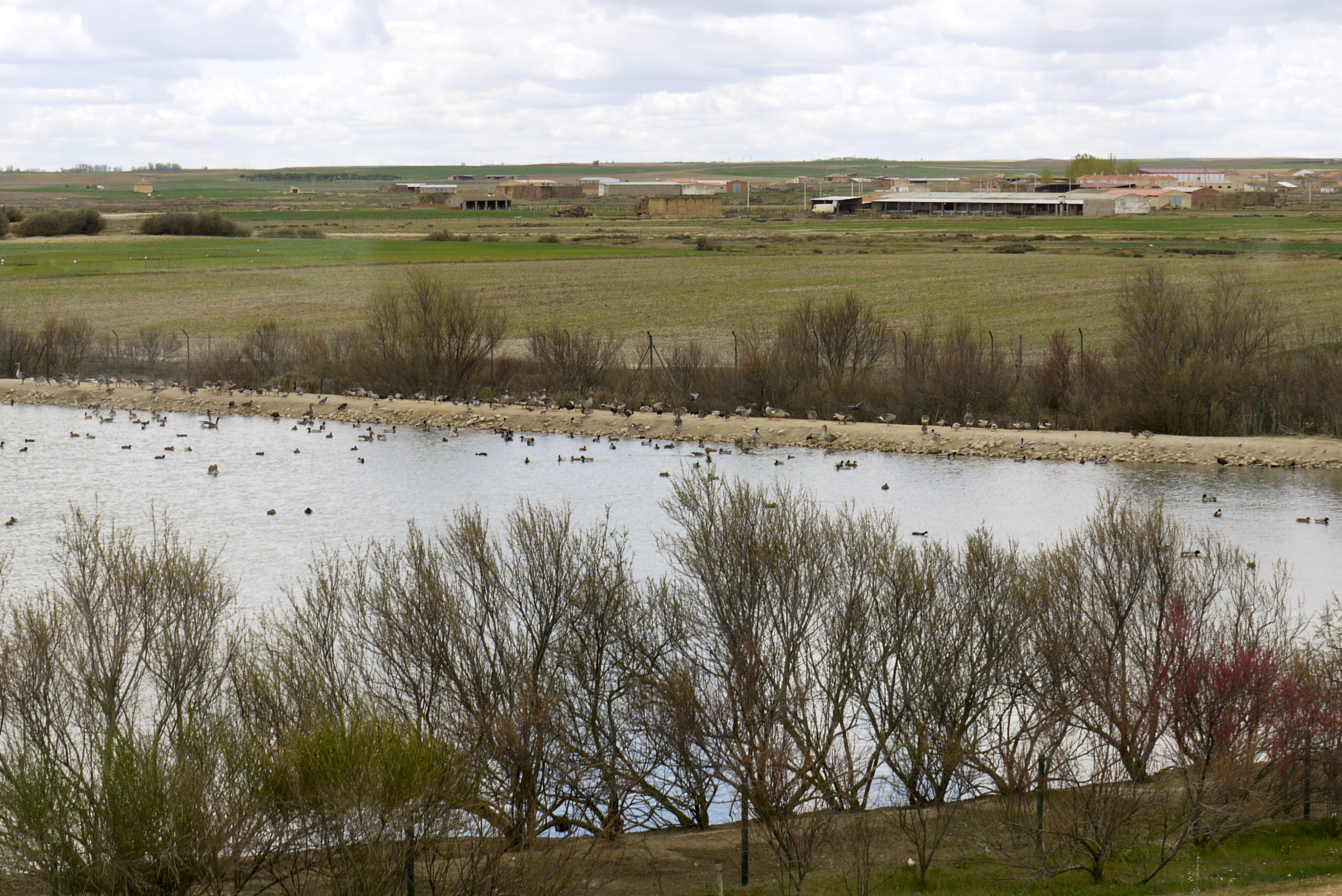 Reserva Natural de Lagunas de Villafáfila, Castile and León, Spain.